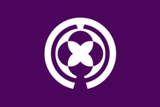 Flag of Kanmaki Nara